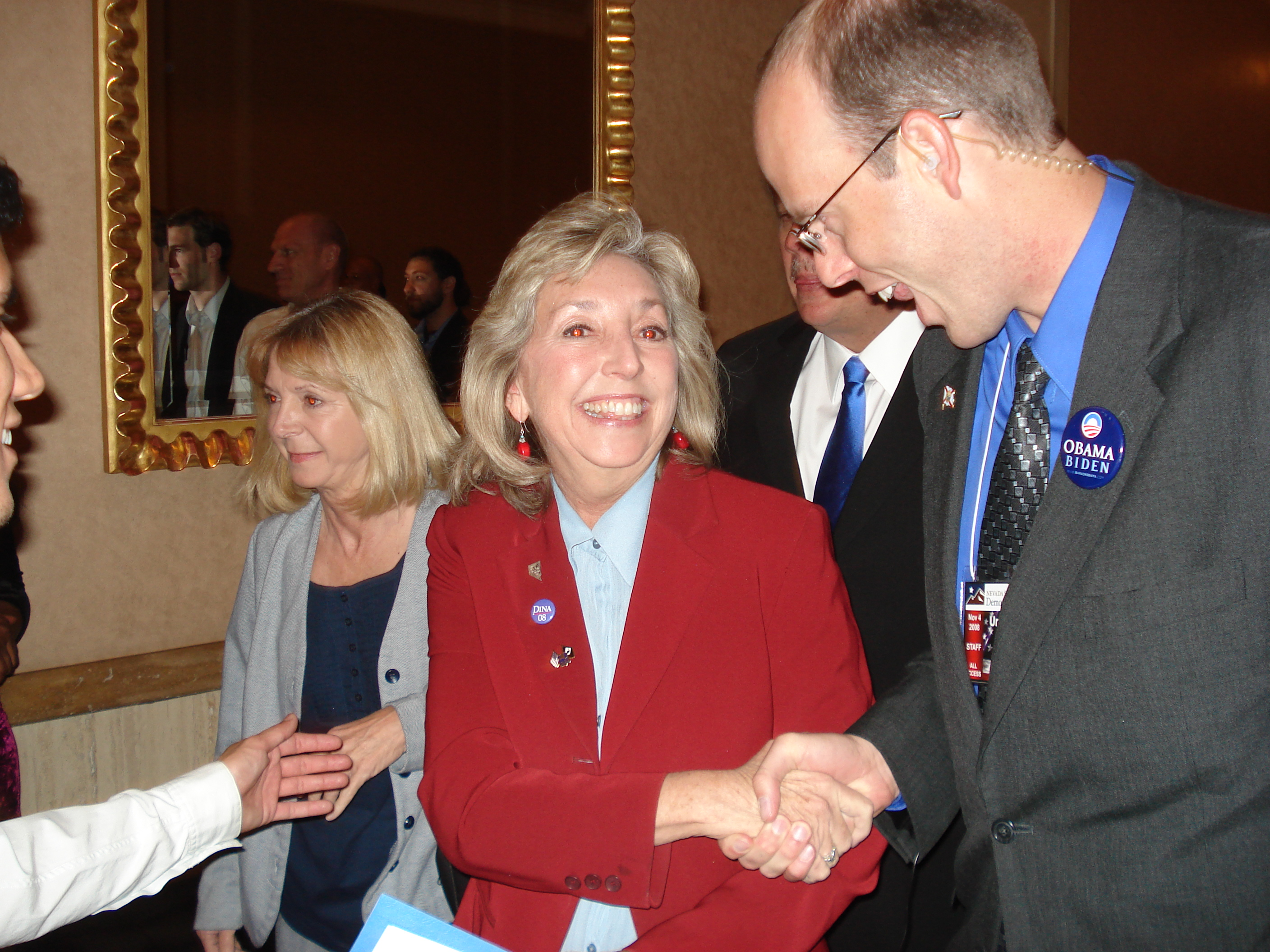 Dina Titus arrives at the Rio All Suite Hotel and Casino Convention Center in Las Vegas, Nevada, after she was elected to the Third Congressional Seat.